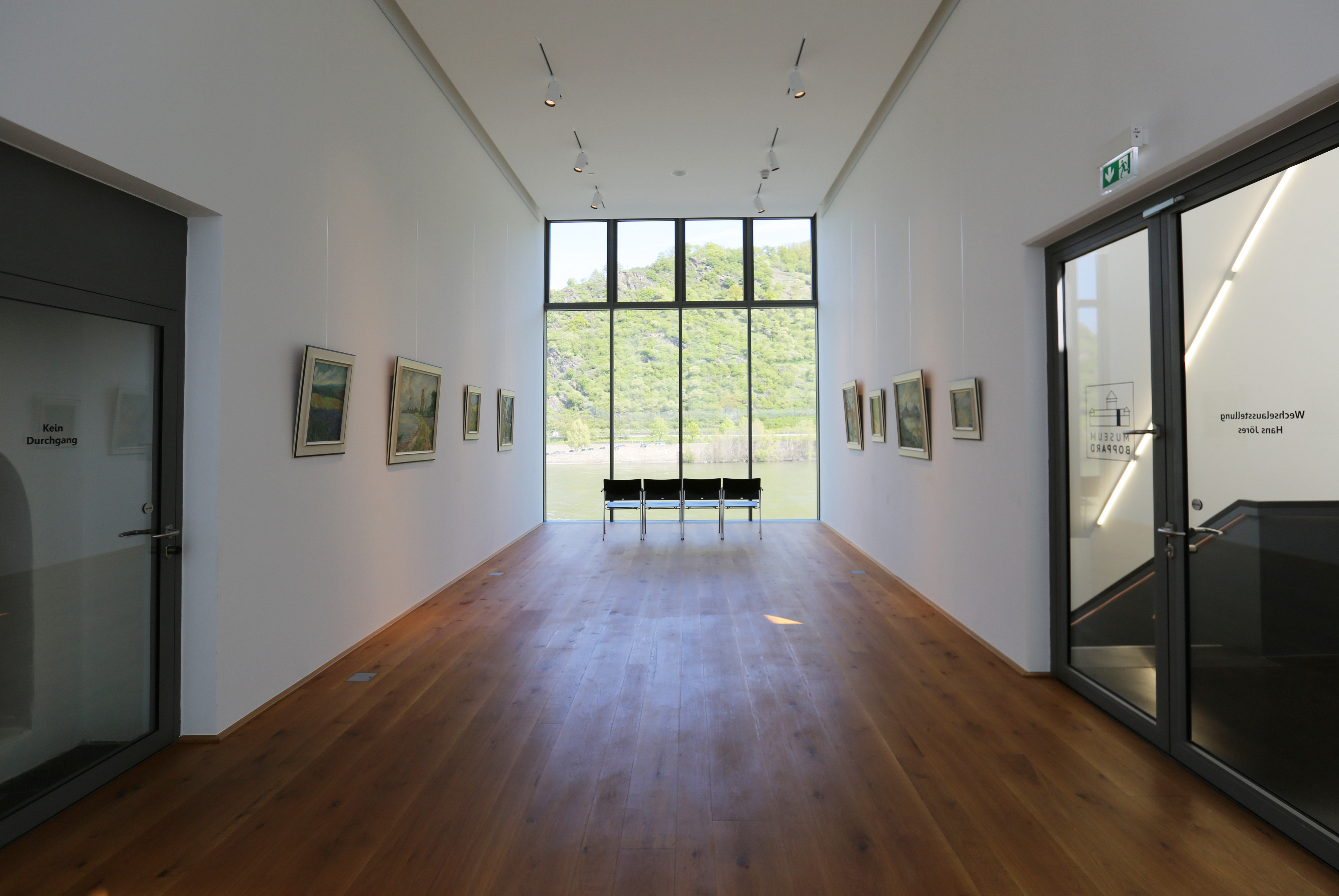 Museum Bopppard in the old electoral castle of Boppard